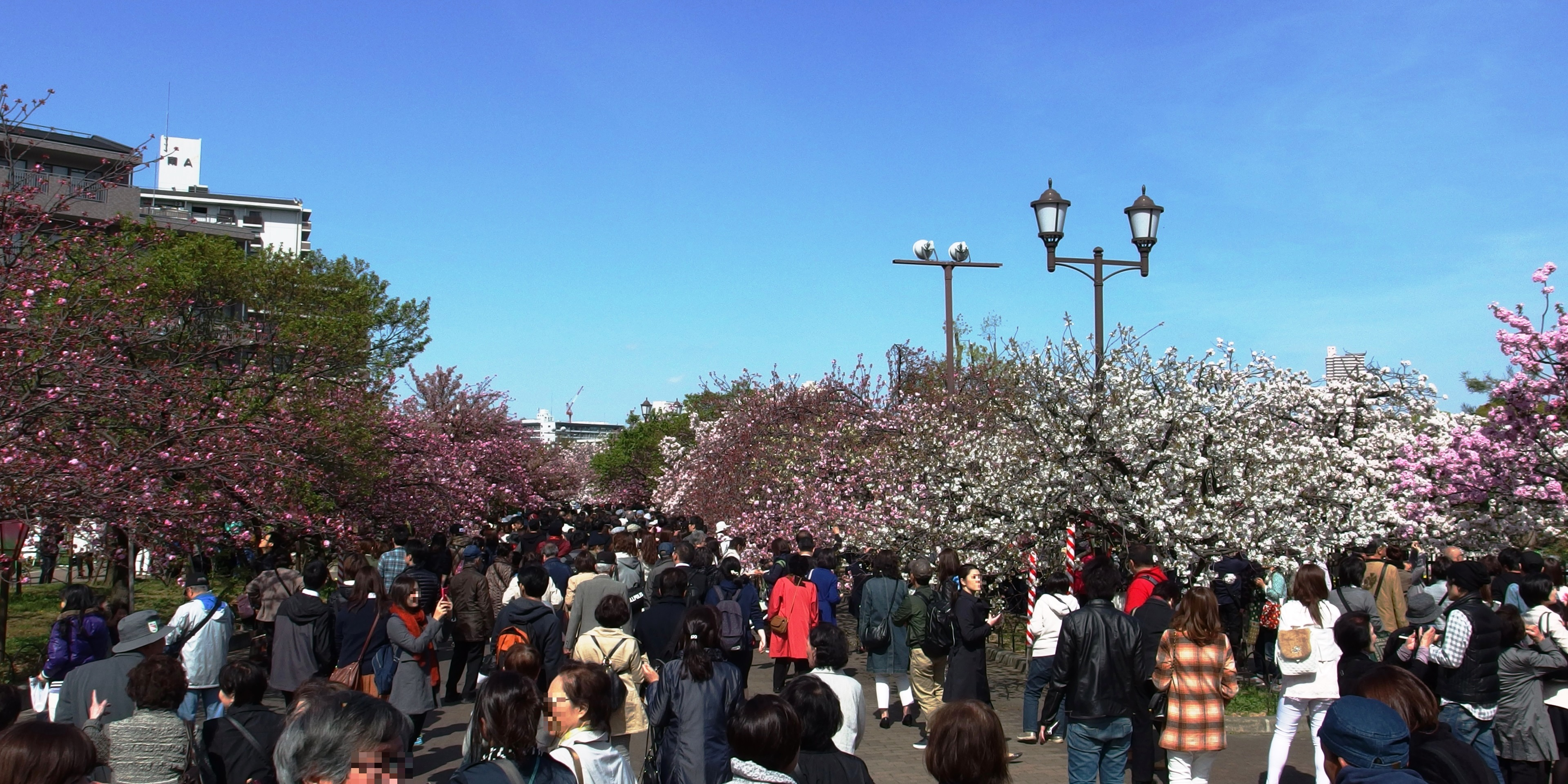 Cherry-Blossom-Viewing through the "Tunnel" at Japan Mint in Osaka, Osaka Prefecture, Japan